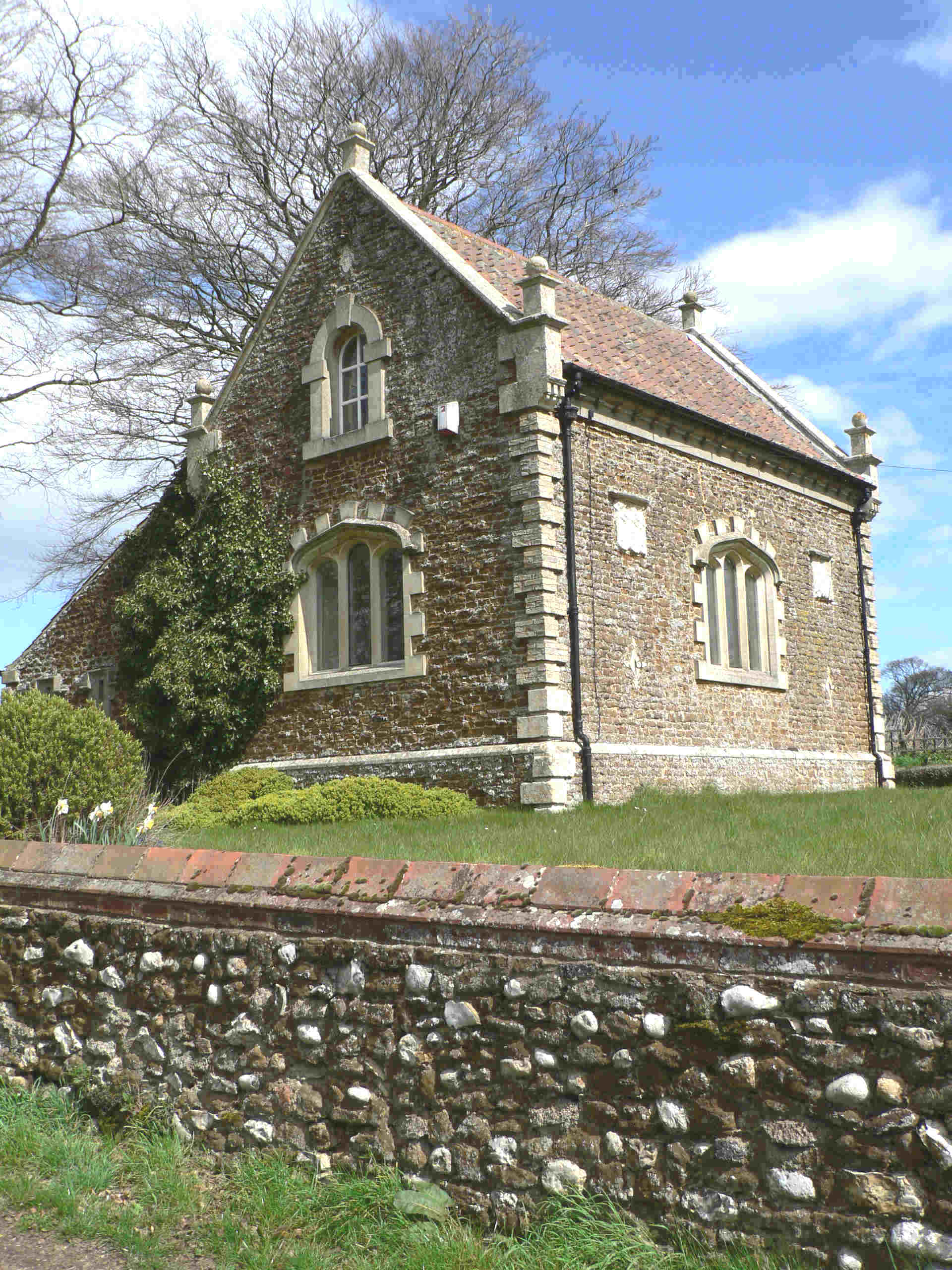 Magazine Cottage on Peddars Way in Sedgeford, an old Gunpowder Store built by the Le Strange family during the Civil War in the late 17th Century